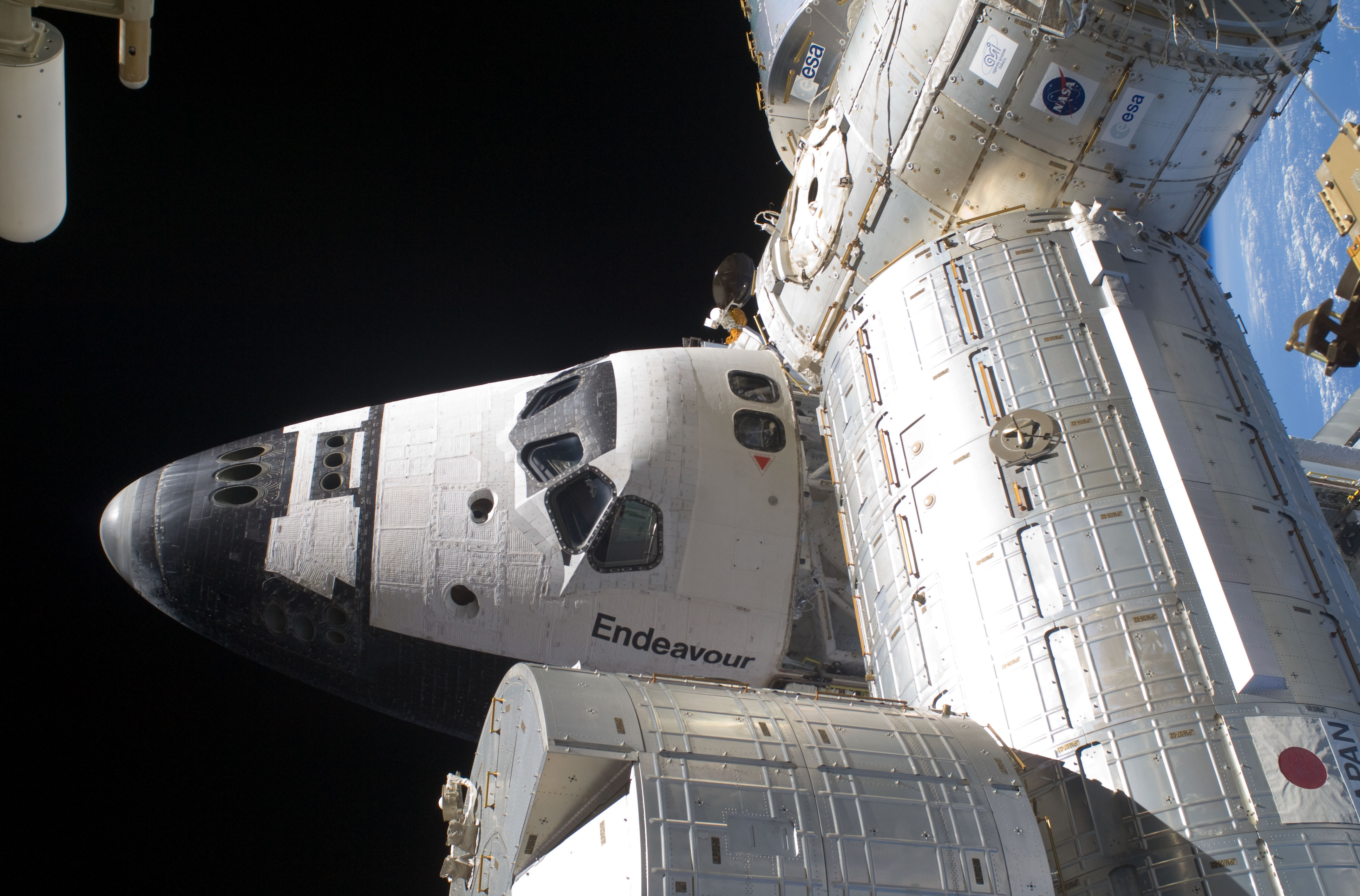 The top exterior of Space Shuttle Endeavour's crew cabin, along with the International Space Station's Kibo laboratory and Harmony node are featured in this image photographed by a STS-127 crew member during the mission's second session of extravehicular activity (EVA).